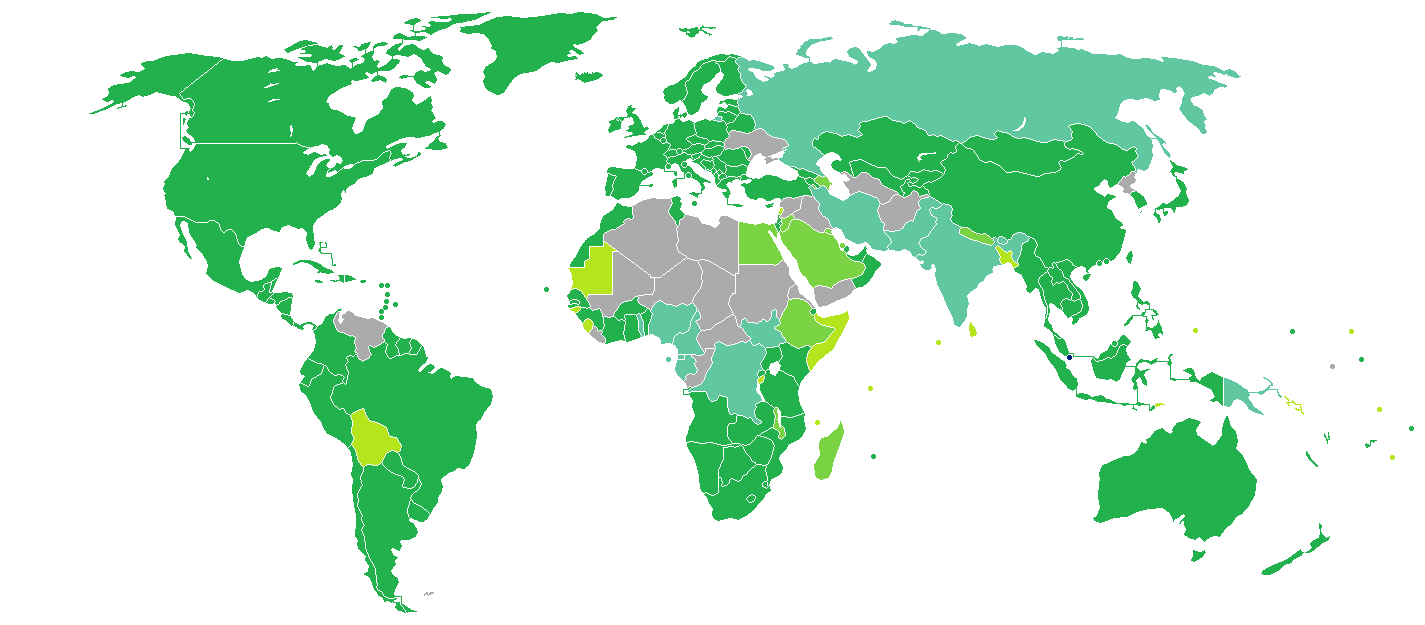 Visa requirements for Singaporean citizens Singapore Visa free access Visa on arrival eVisa Visa available both on arrival or online Visa required